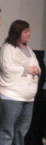 Ben Falcone, Melissa McCarthy, and Ryan Reynolds